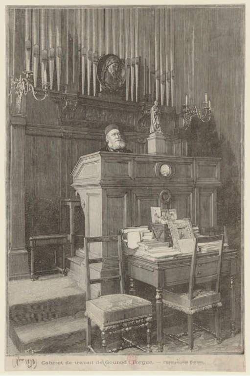 Illustration of Charles Gounod seated at the 1879 Cavaillé-Coll organ in his studio in 1893 after a photograph by Paul Marcel Dornac